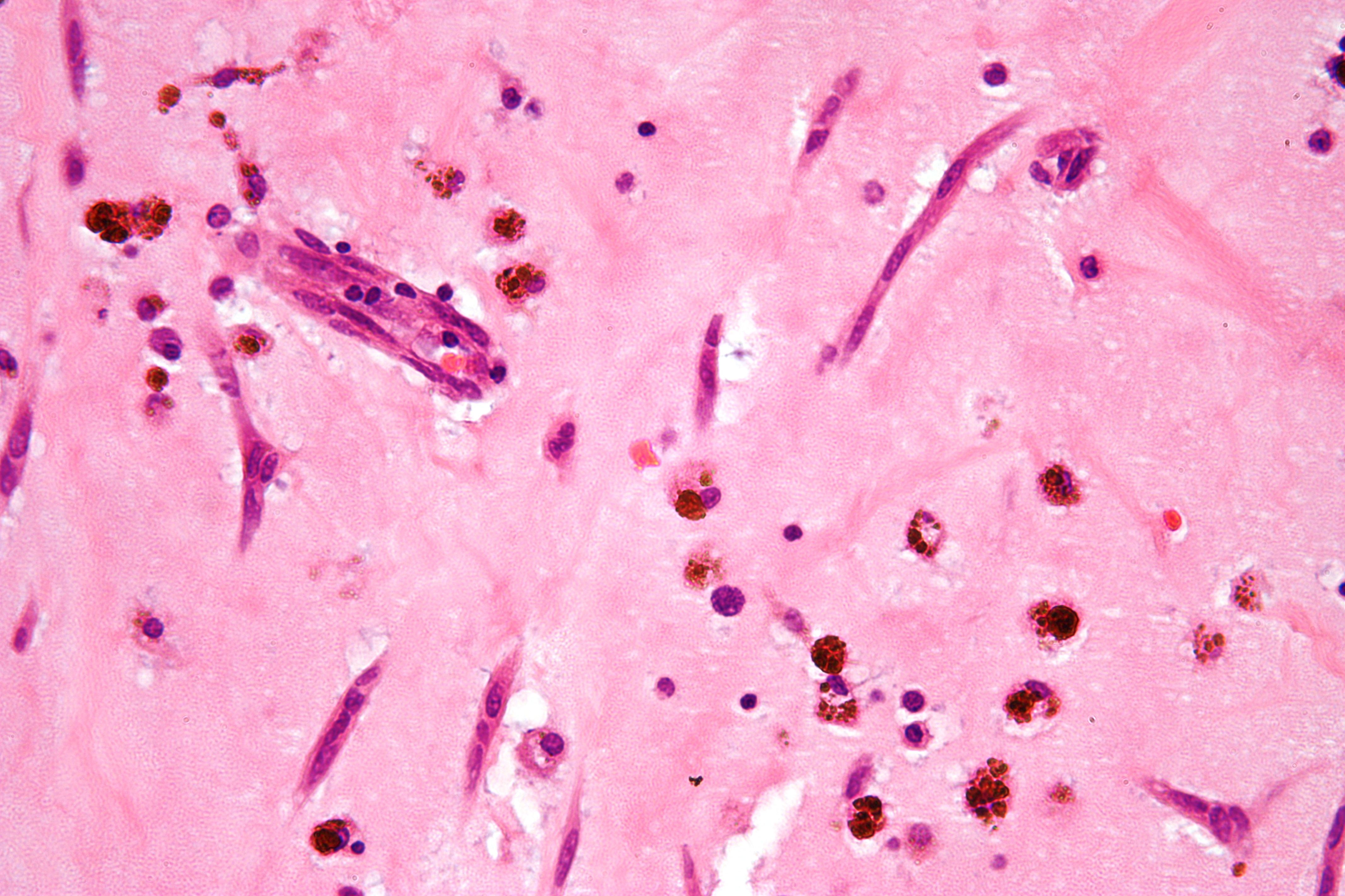 High magnification micrograph of an atrial myxoma. H&E stain. Atrial myxoma is the most common primary tumour of the heart. It is benign. Features: Hypocellular myxoid polypoid mass with cells that are: Perivascular arrangement, Finely vacuolated eosinophilic cytoplasm, Polygonal/elongated cell shape, Mononuclear or multinucleated. May contain macrophages, other inflammatory cells. May be covered with endothelium. Related images High mag. Intermed. mag. Low mag. High mag. with endothelium. Low mag. with interface to muscular wall.